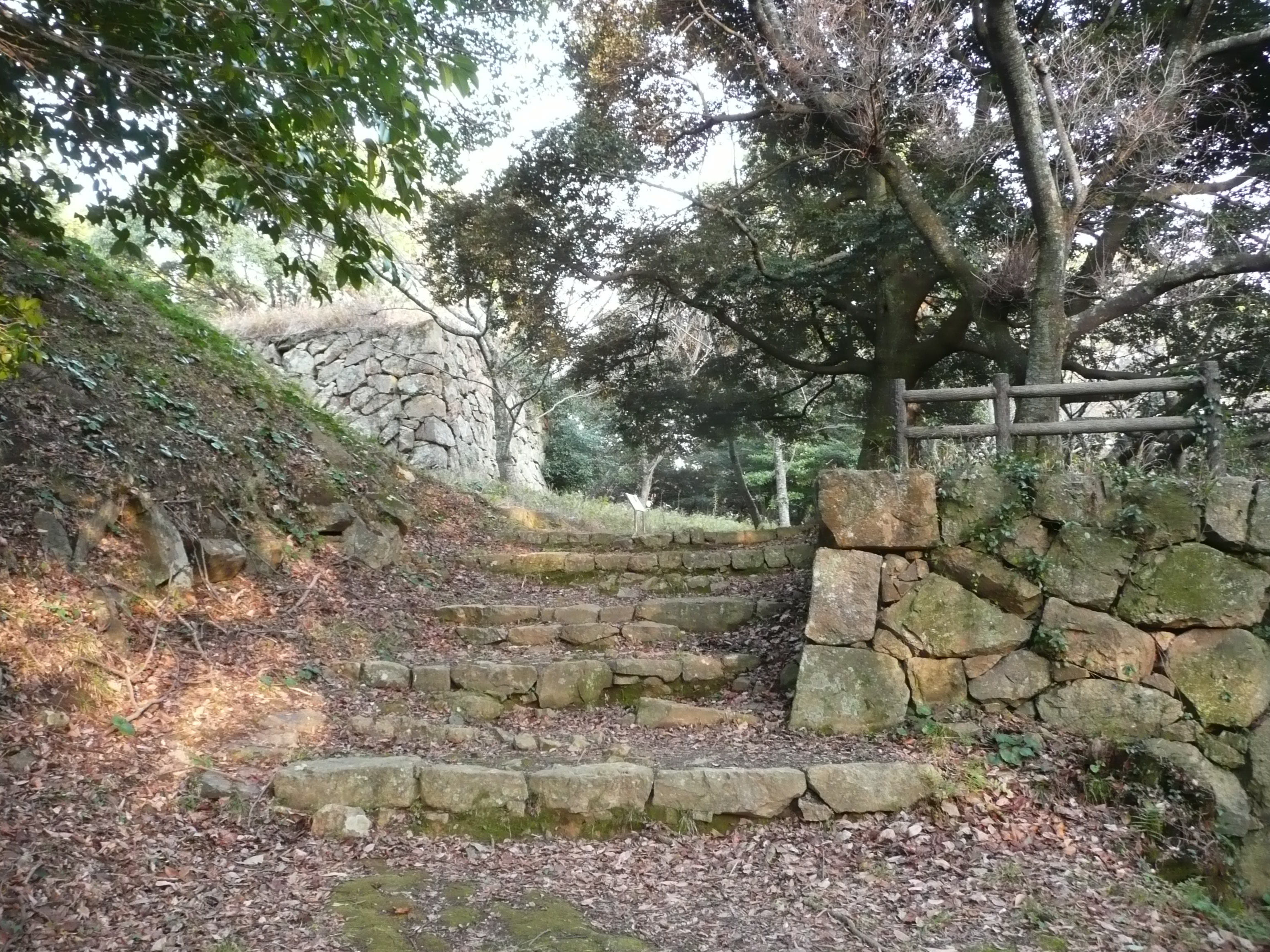 三の丸にある階段の石垣